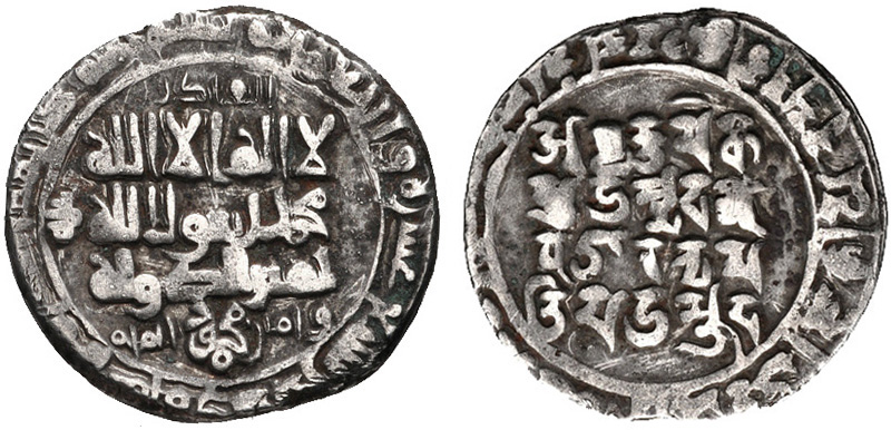 Coin of Mahmud of Ghazni, an Ghaznavid ruler.